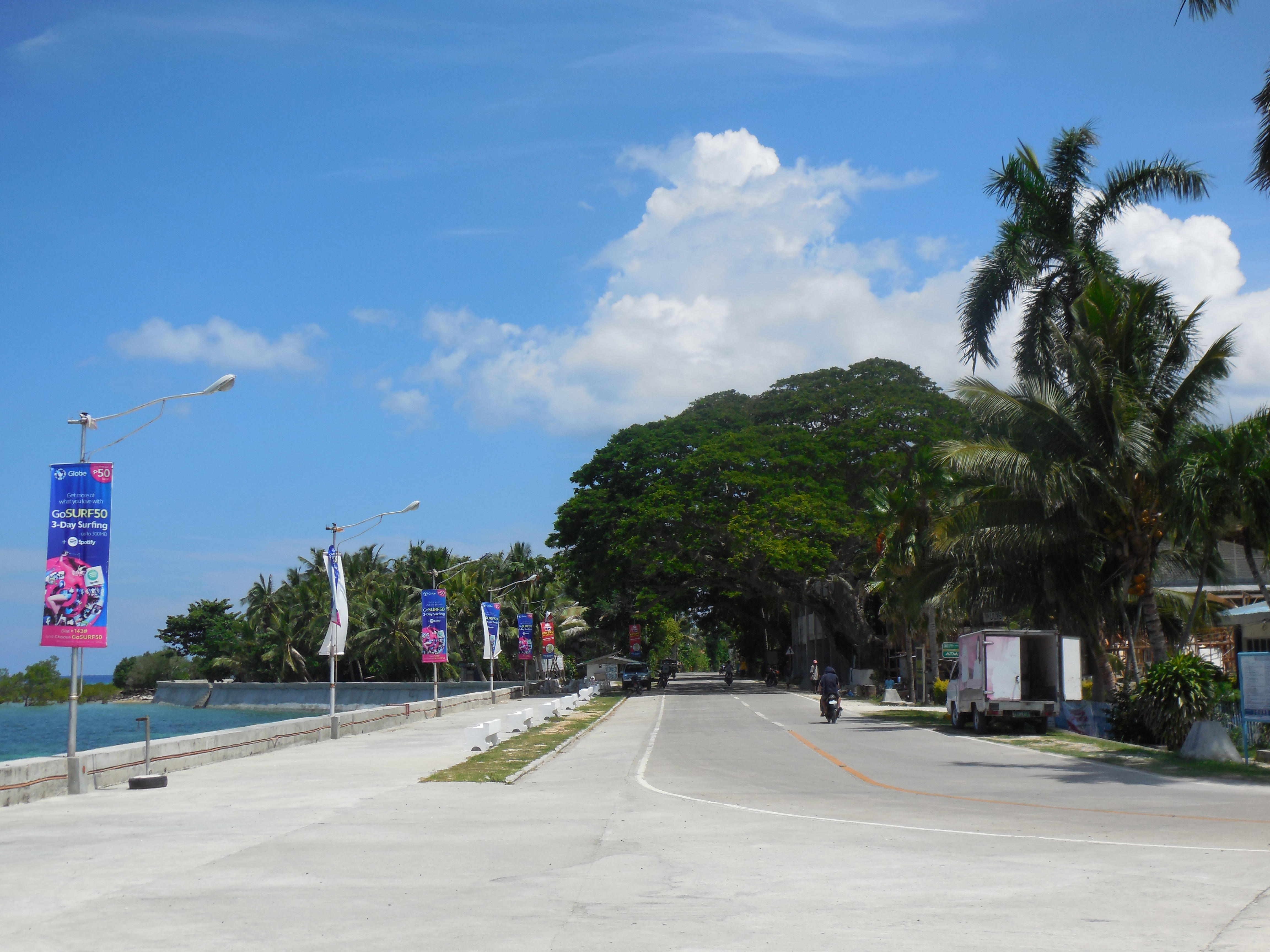 The Enrique Villanueva section of the Siquijor Circumferential Road showing the town's boardwalk.